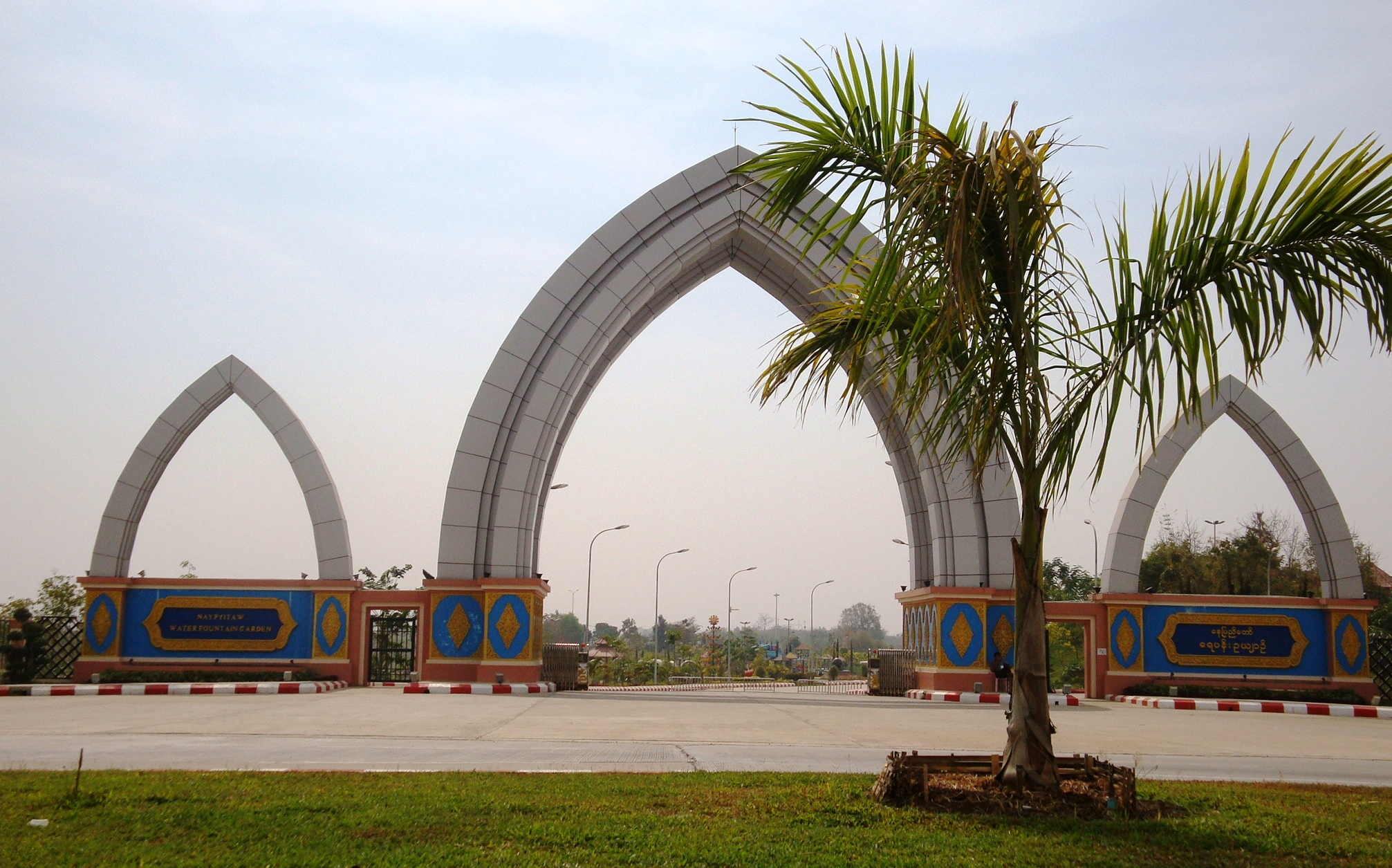 Naypyidaw, Naypyidaw Capital Region, Myanmar: Water Fountain Garden.